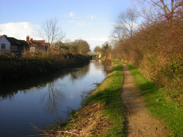 Chesterfield Canal Looking west along the Chesterfield Canal at Rhodesia